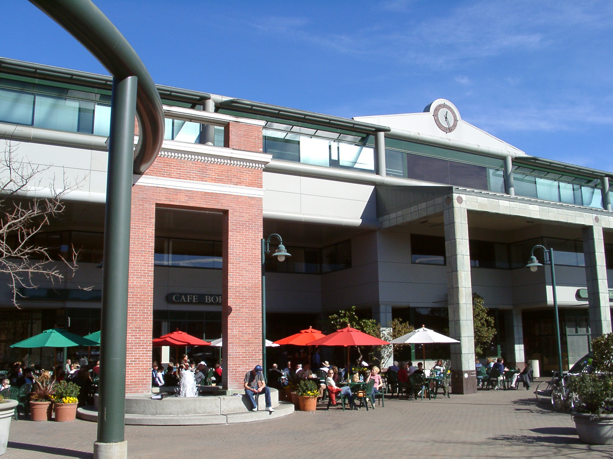 Cafe Borrone, adjacent to Kepler's Books in the Menlo Center, is a popular lunch spot in downtown Menlo Park.